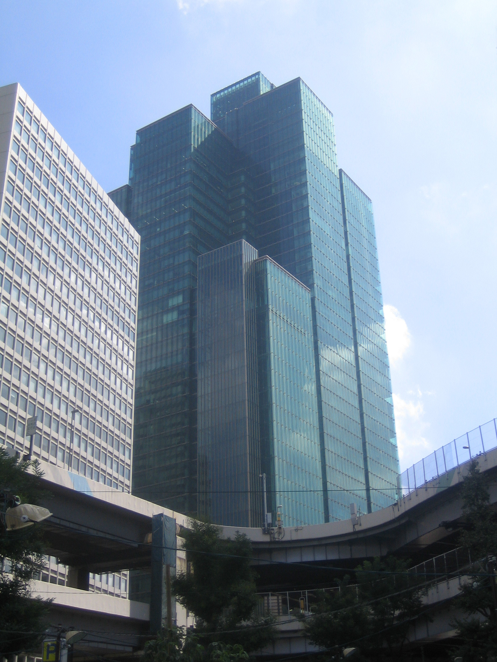 泉ガーデンタワー。東京都 :Category:Minato, Tokyo |港区 六本木Izumi Garden Tower (泉ガーデンタワー), at Roppongi, Minato, Tokyo, Japan